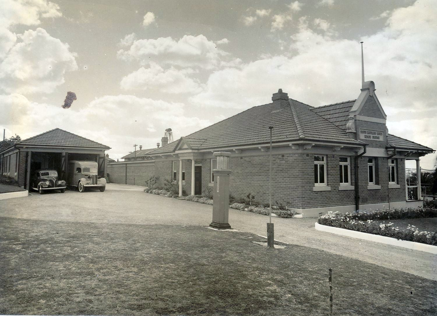 South Maitland Central Rescue Station, Abermain Dated: No date Digital ID: 12932-a012-a012X2448000057 Rights: We'd love to hear from you if you use our photos. Many other photos in our collection are available to view and browse on our website using Photo Investigator.